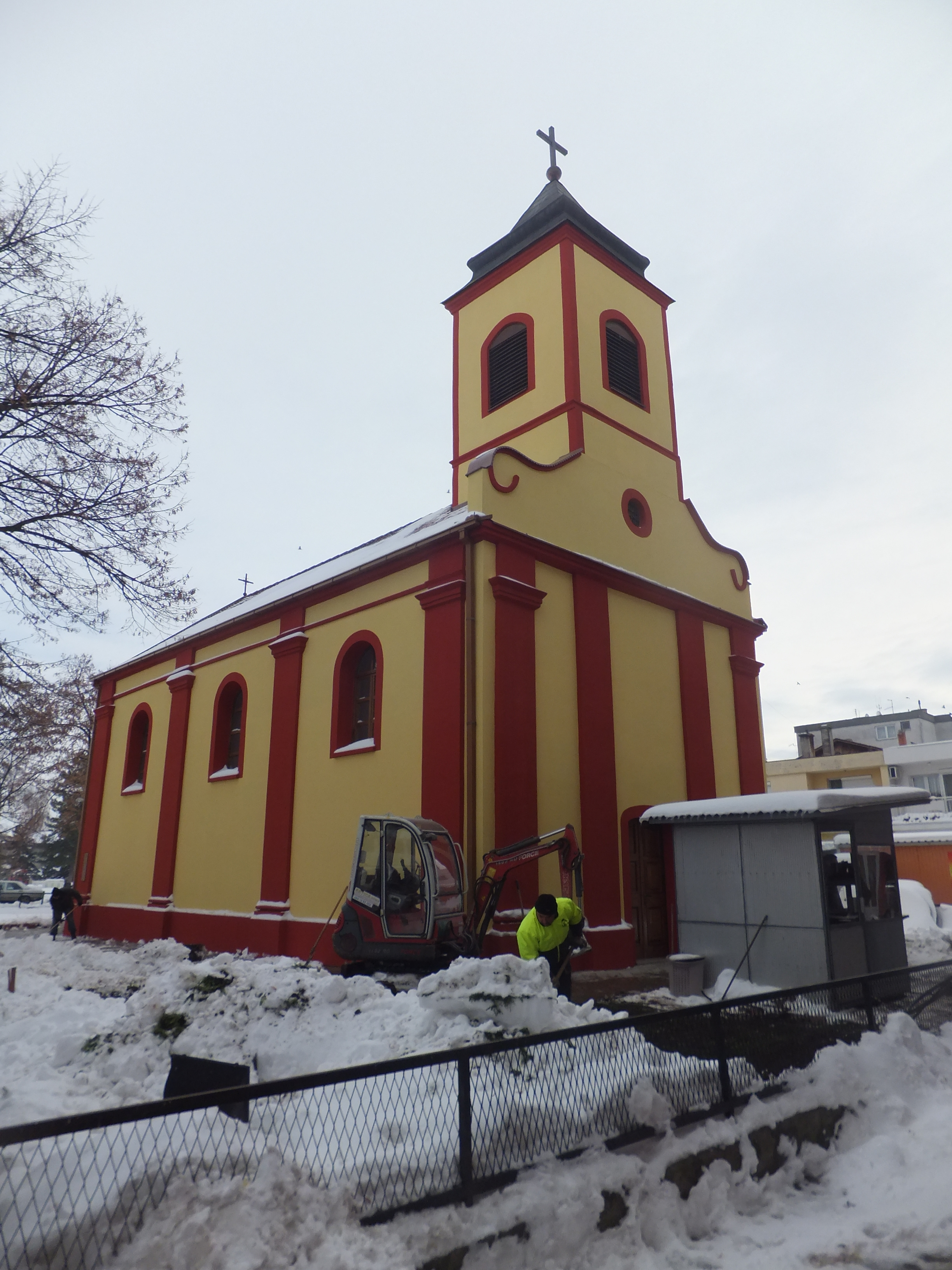 Church of Michael and Gabriel in Pećinci